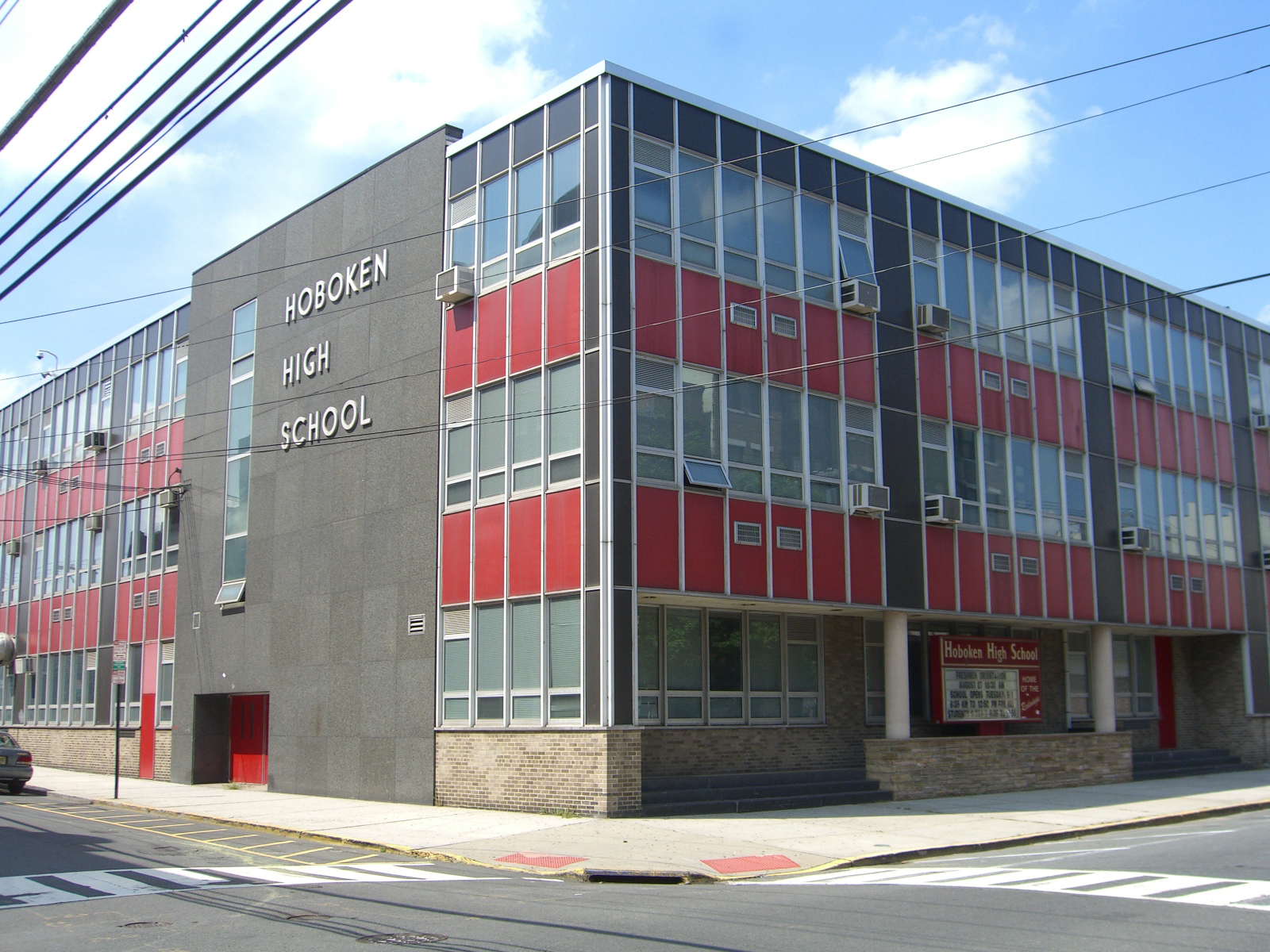 Hoboken High School in Hoboken, New Jersey. This photo was created by Luigi Novi. It is not in the public domain, and use of this file outside of the licensing terms is a copyright violation.